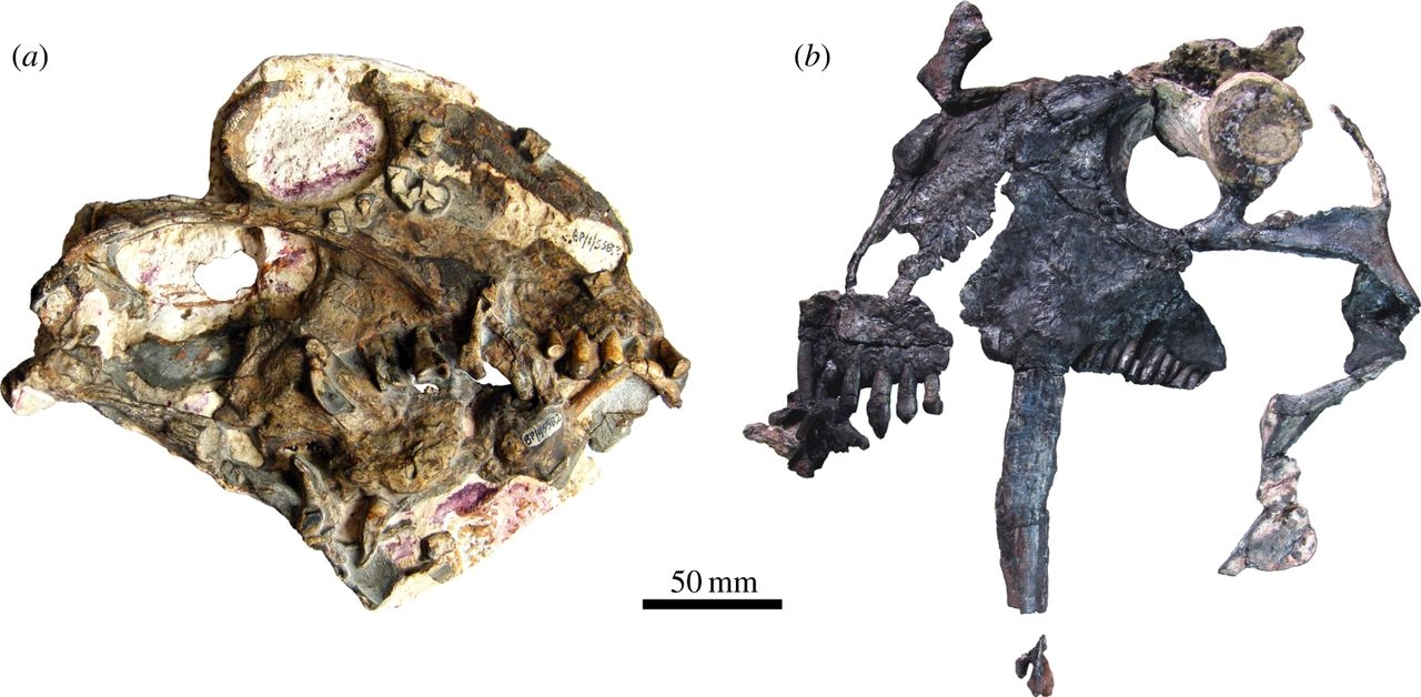 (a) Anomocephalus africanus (BP-1-5582) from the Middle Permian of South Africa, cranium, right lateral view. (b) Tiarajudens eccentricus (UFRGS PV393P), from the Middle Permian of Brazil, cranium, left lateral view.